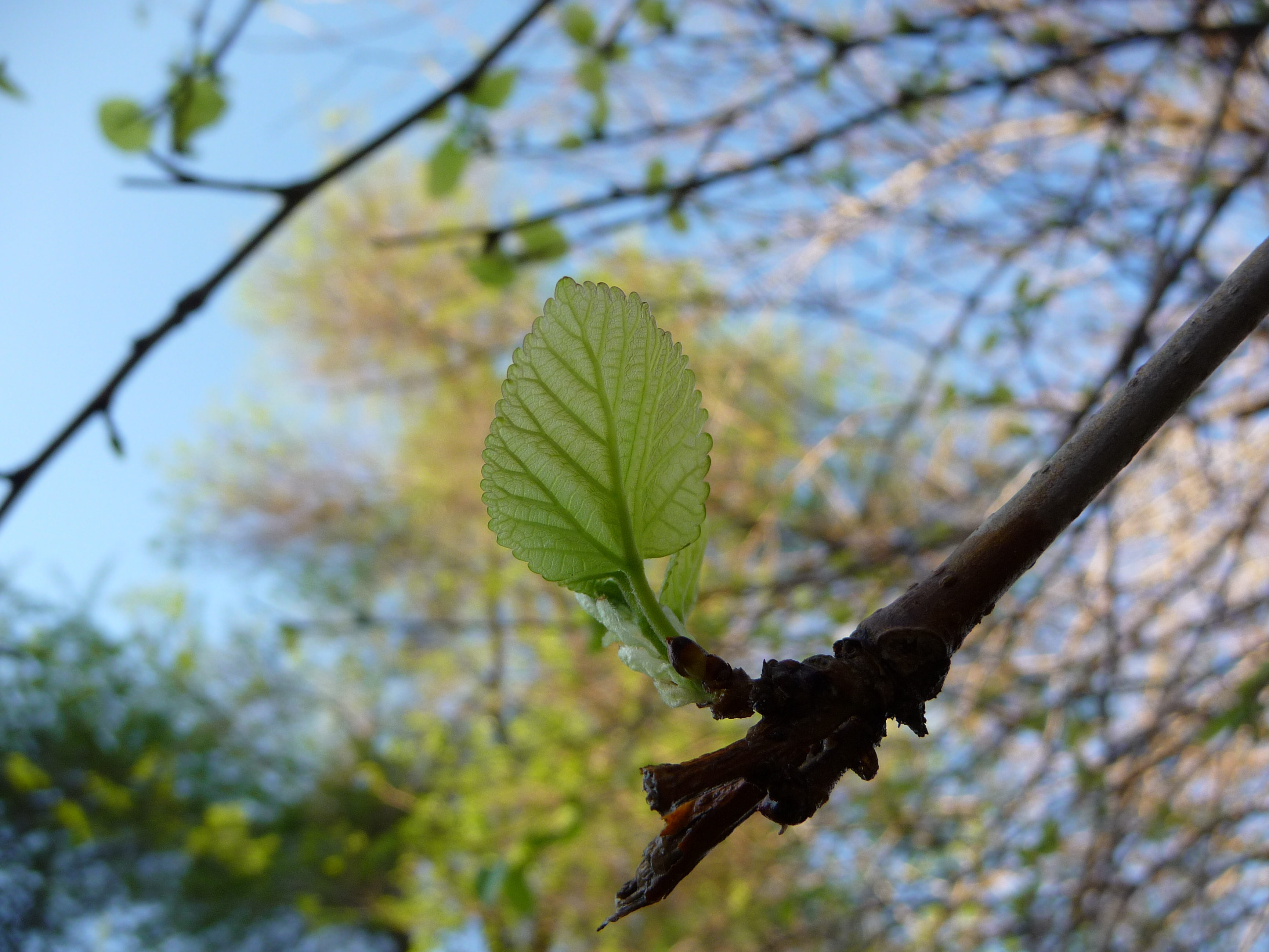 Beit Oren is a kibbutz in northern Israel. It falls under the jurisdiction of Hof HaCarmel Regional Council.